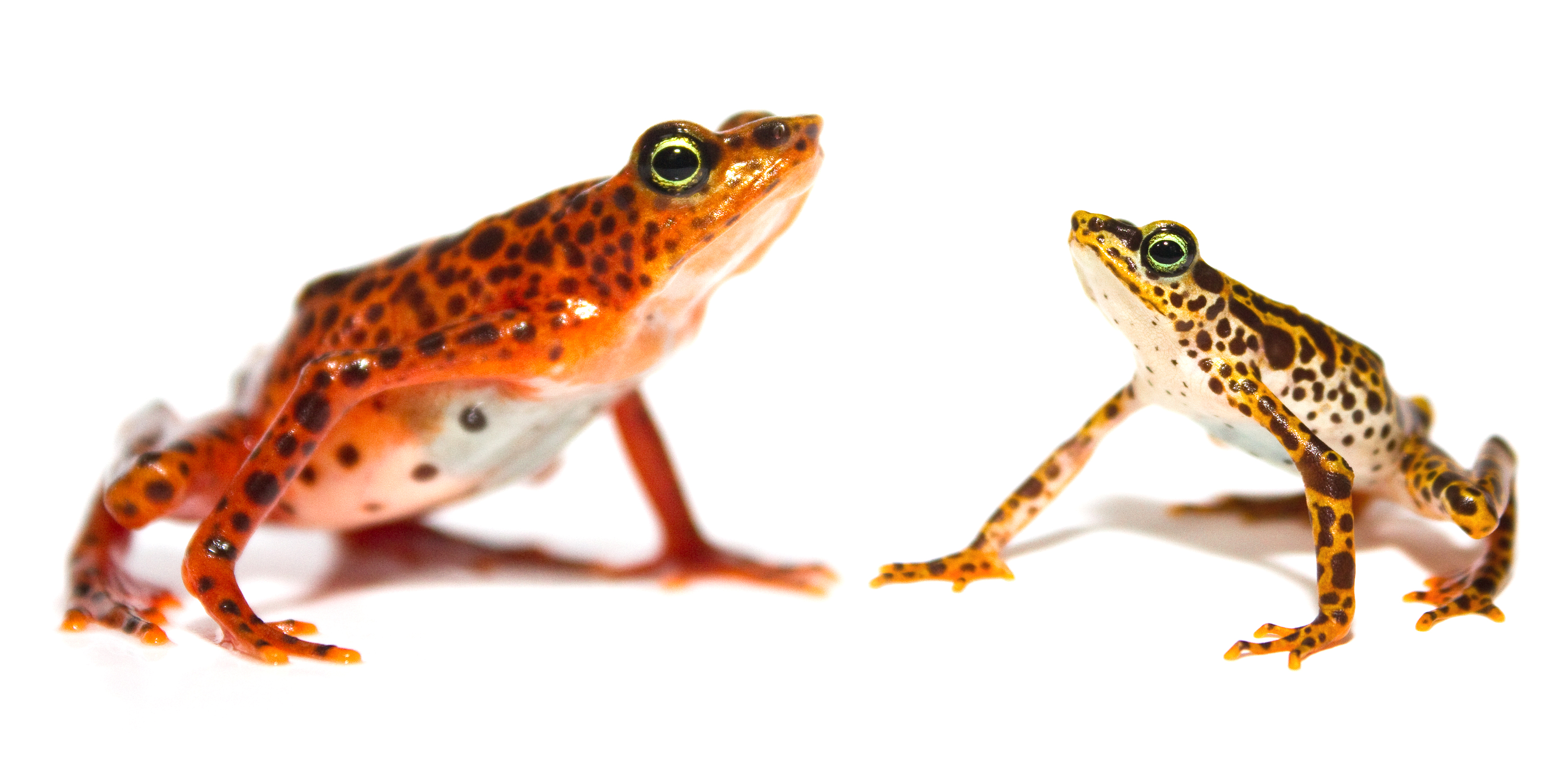 Toad Mountain Harlequin frog. Female on the left, male on the right.